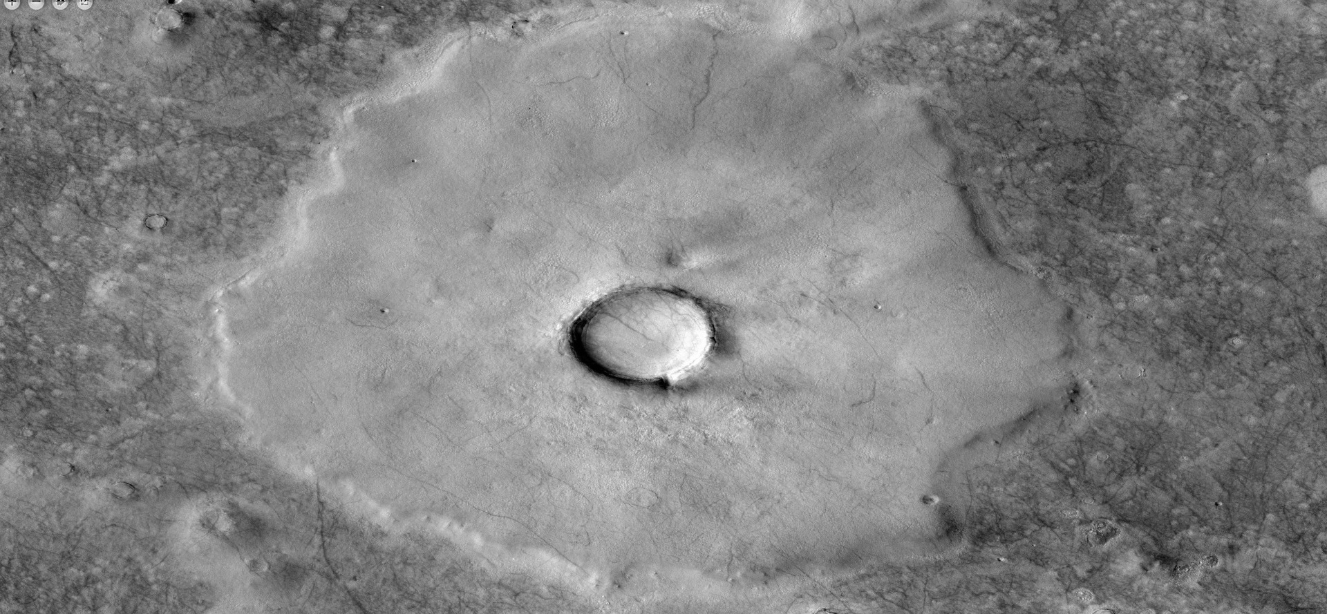 Pancake crater, as given in Mars. 1992. Kiefer, H. et al.